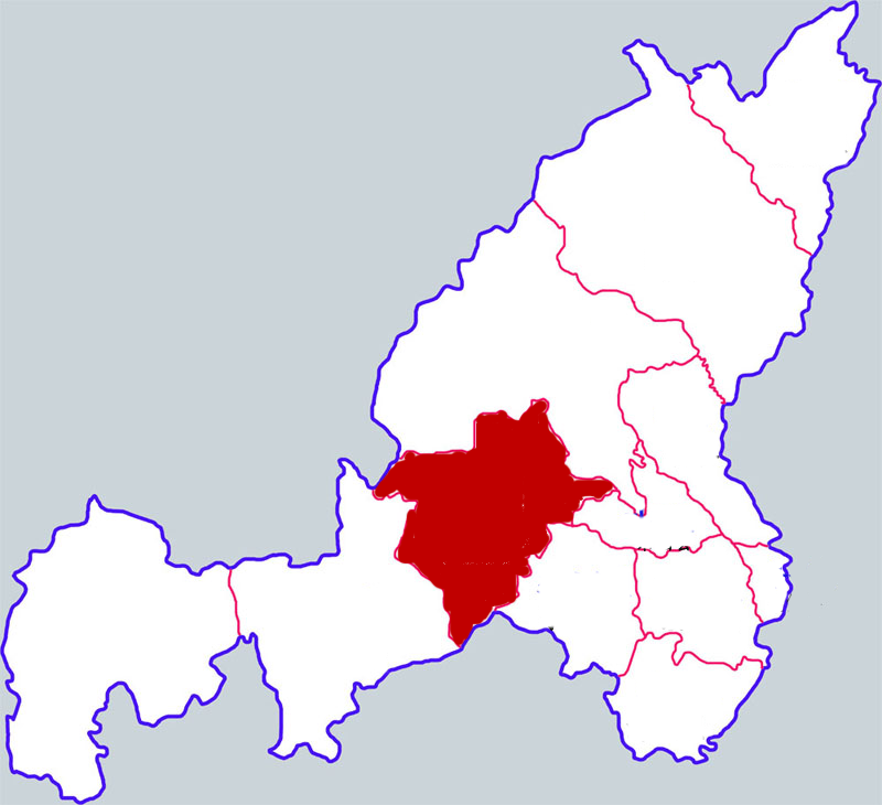 Location of Hengshan county in Yulin city, Shaanxi province, China